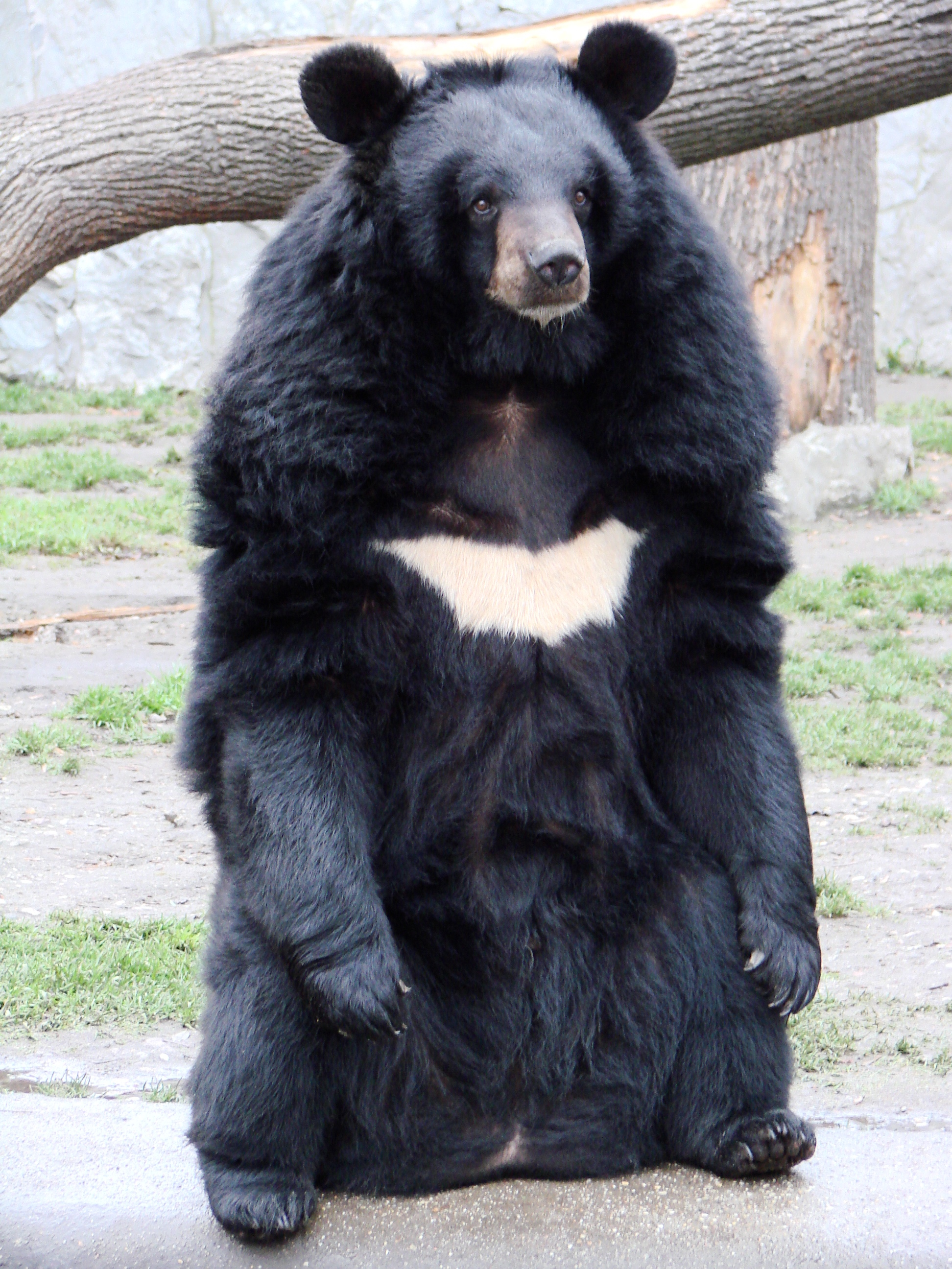 Animal species: Asiatic Black Bear (Wrocław zoo)